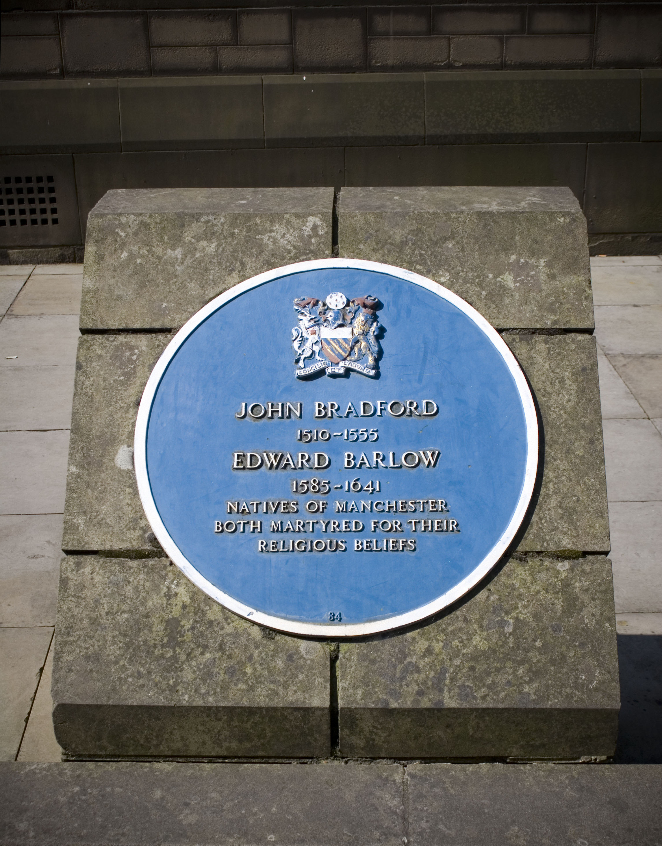 The blue plaque for John Bradford and Edward Barlow, outside Manchester Cathedral in Manchester, England.